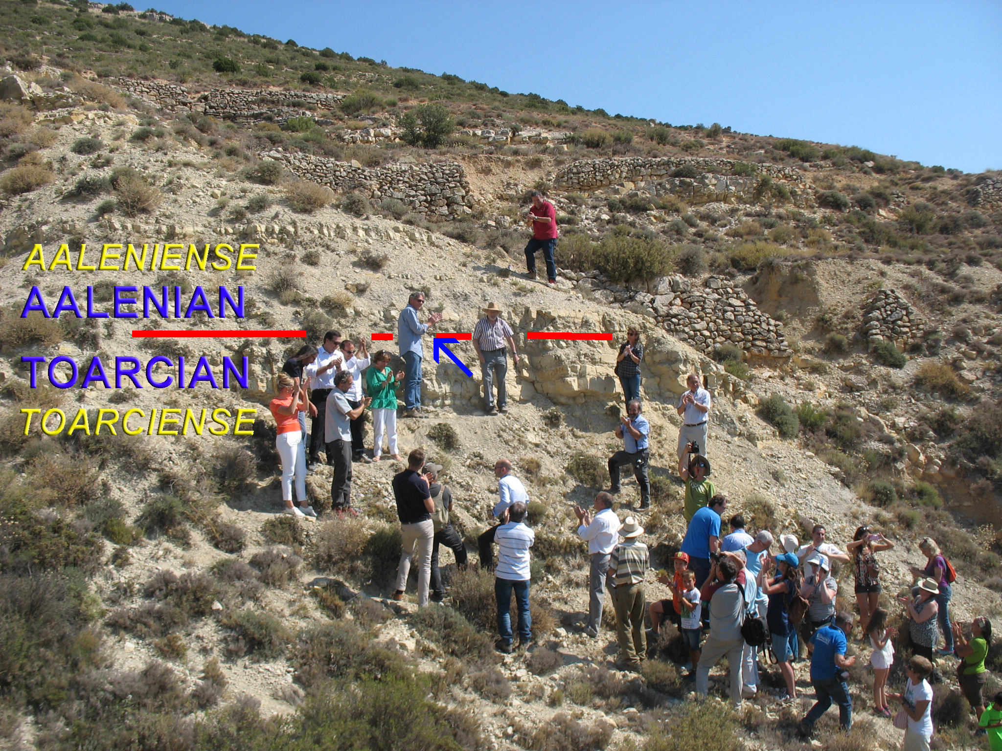 Aalenian GSSP (Lower-Middle Jurassic boundary). Golden spike ceremony: July, 28th 2016. Fuentelsaz, Guadalajara, Spain. Toarcian-Aalenian boundary overprint. The blue arrow points to the golden spike. Beside the golden spike are, at the left, Dr. Stanley Finney (President of the International Stratigraphic Commission) and, at the right, Dr. Antonio Goy Goy (Professor Emeritus of the Faculty of Geological Sciences at the Complutense University of Madrid).